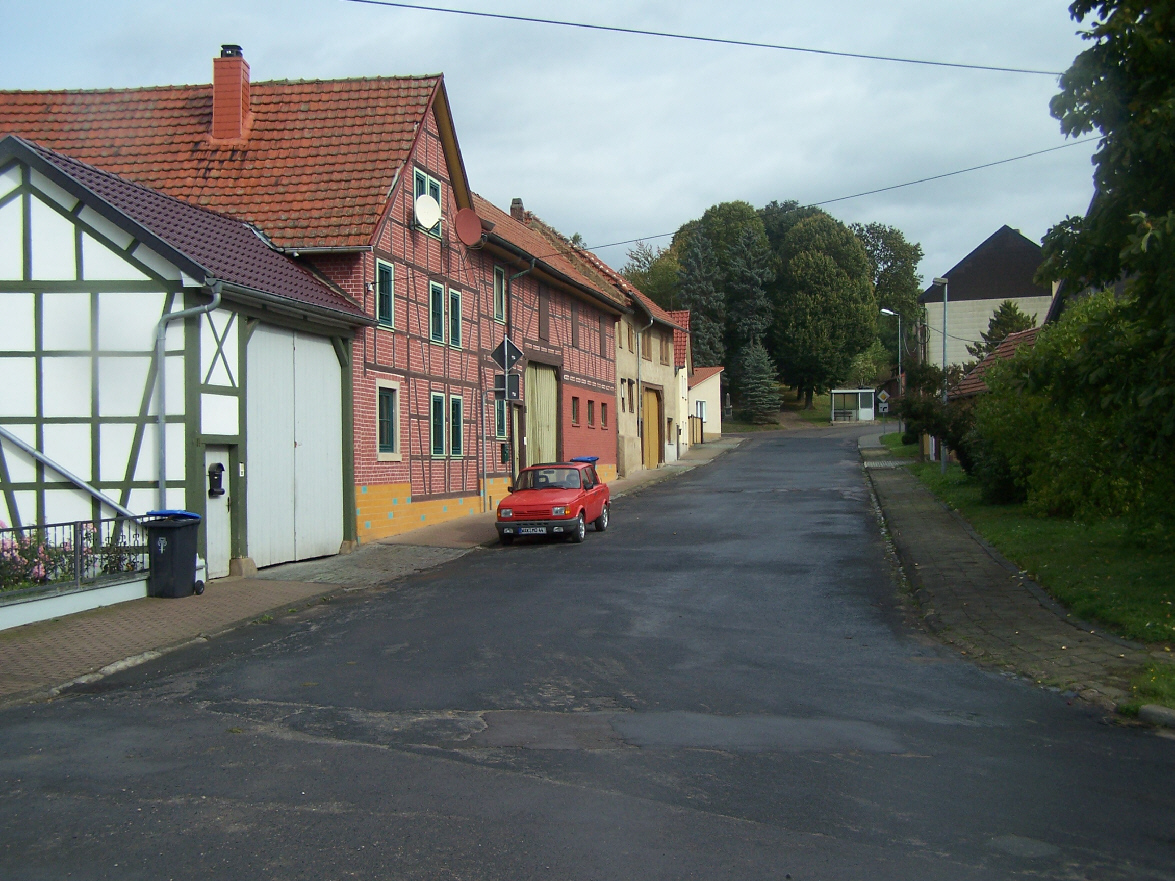 At the main street in Bolleroda village.